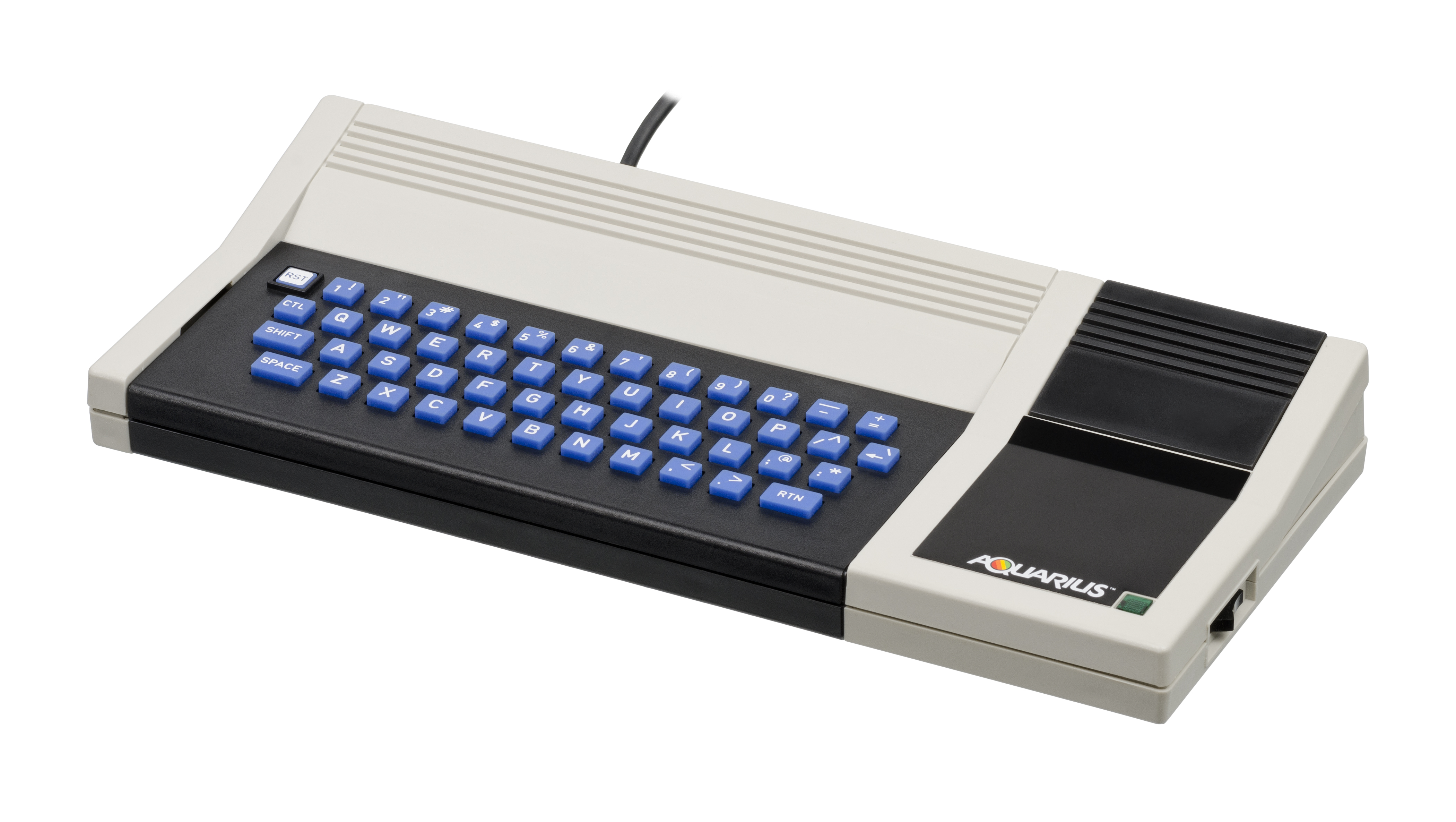 The Mattel Aquarius, an 8-bit computer that was first released in 1983.